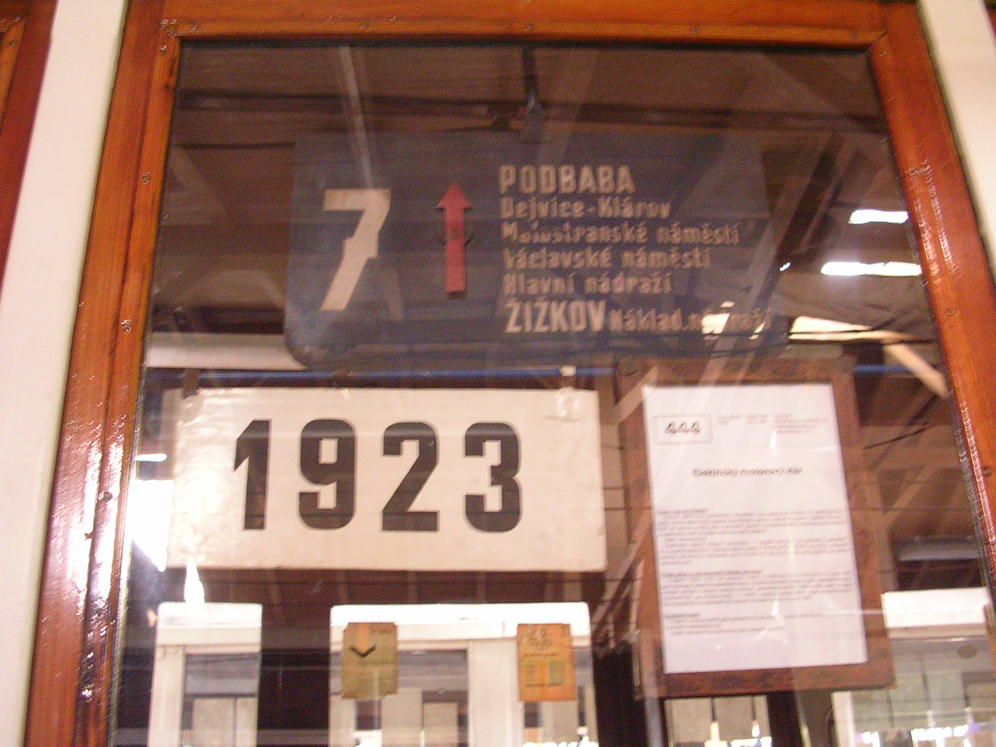 Střešovice, Prague, the Czech Republic. Střešovice tram depot and transport museum. A historical tram in Prague.